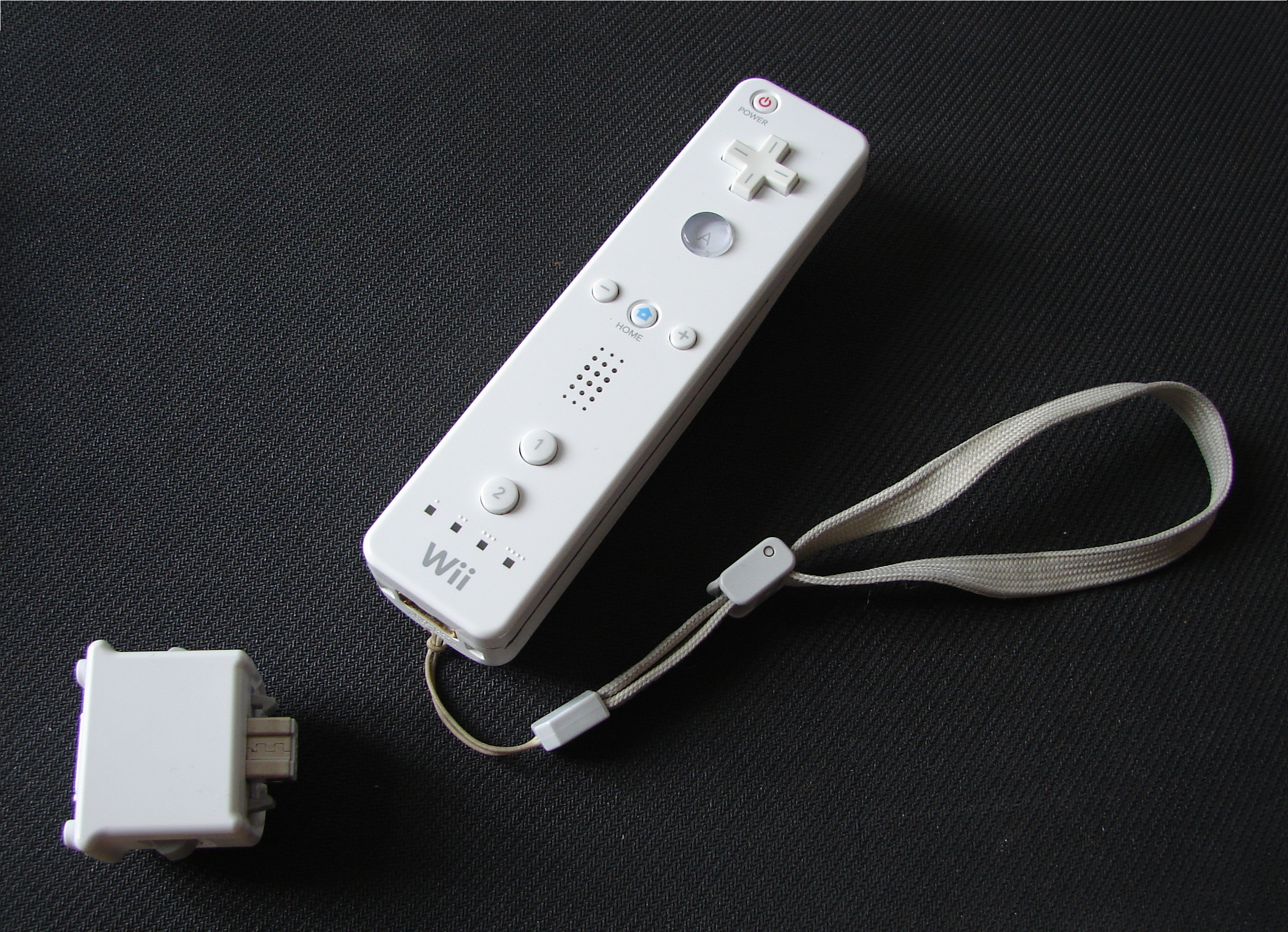 WiiRemote with MotionPlus extension